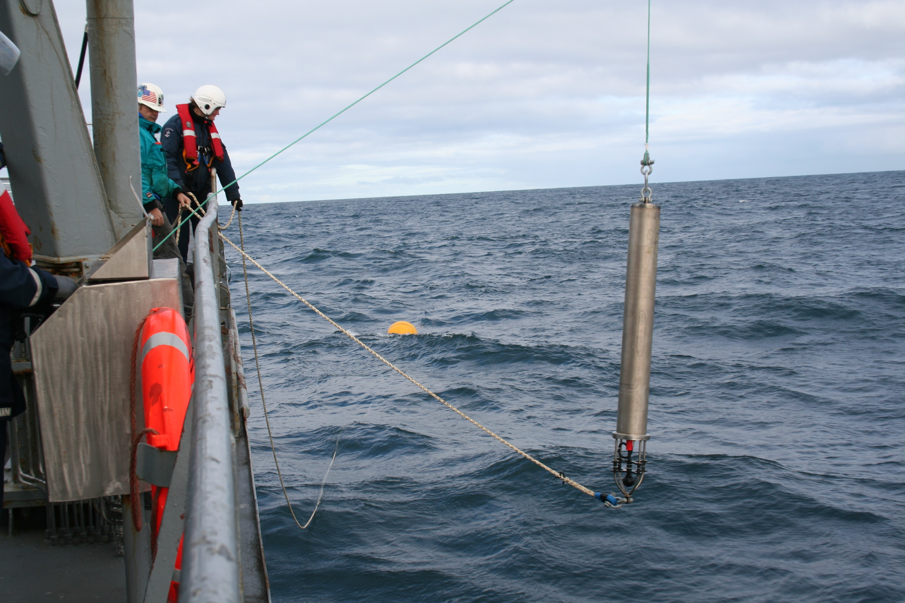 Uploader's description: "Scientists including Matt Fowler, who works for both Oregon State University and NOAA, deploy a hydrophone in the North Atlantic aboard the Icelandic Coast Guard cutter Aegir that will record sounds emitted by endangered whales and other species. (photo courtesy of Dave Mellinger, Oregon State University)"